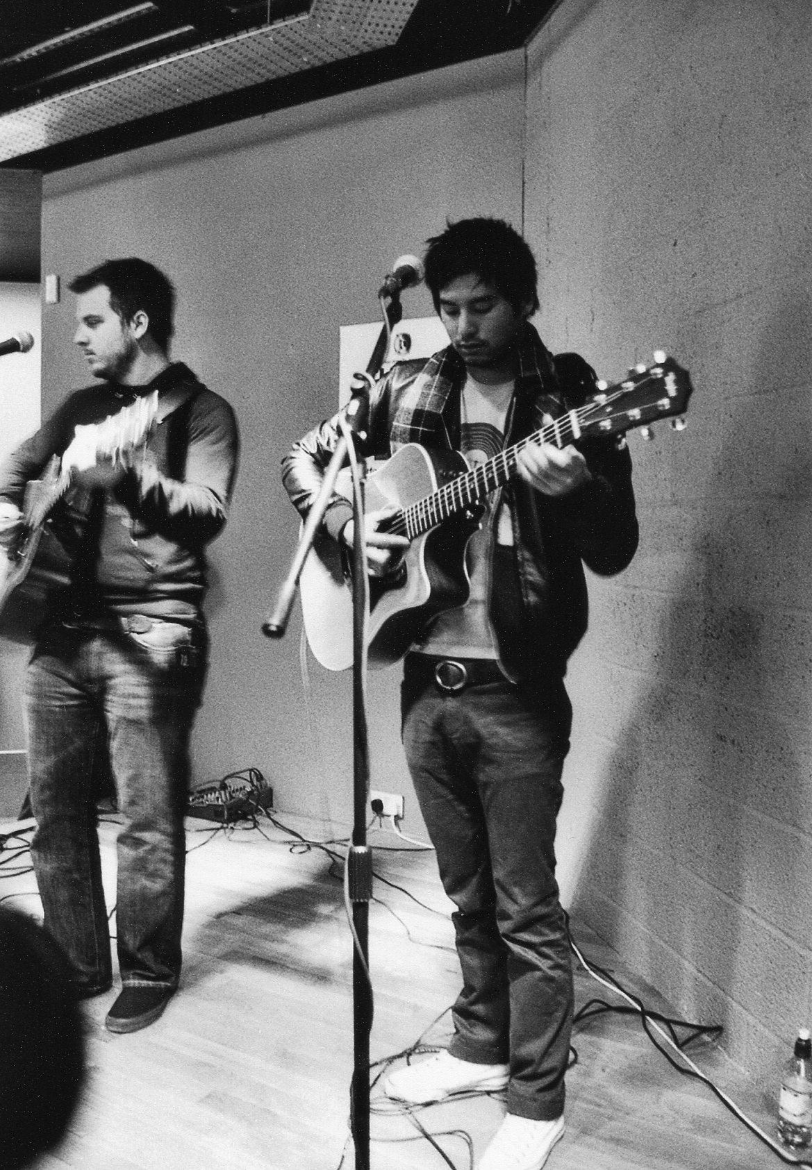 Teppei Teranishi (right) and Dustin Kensrue (left) of Thrice performing at a Fopp instore signing in Southampton, UK. I said i worked for a local music magazine and they let me right to the front!